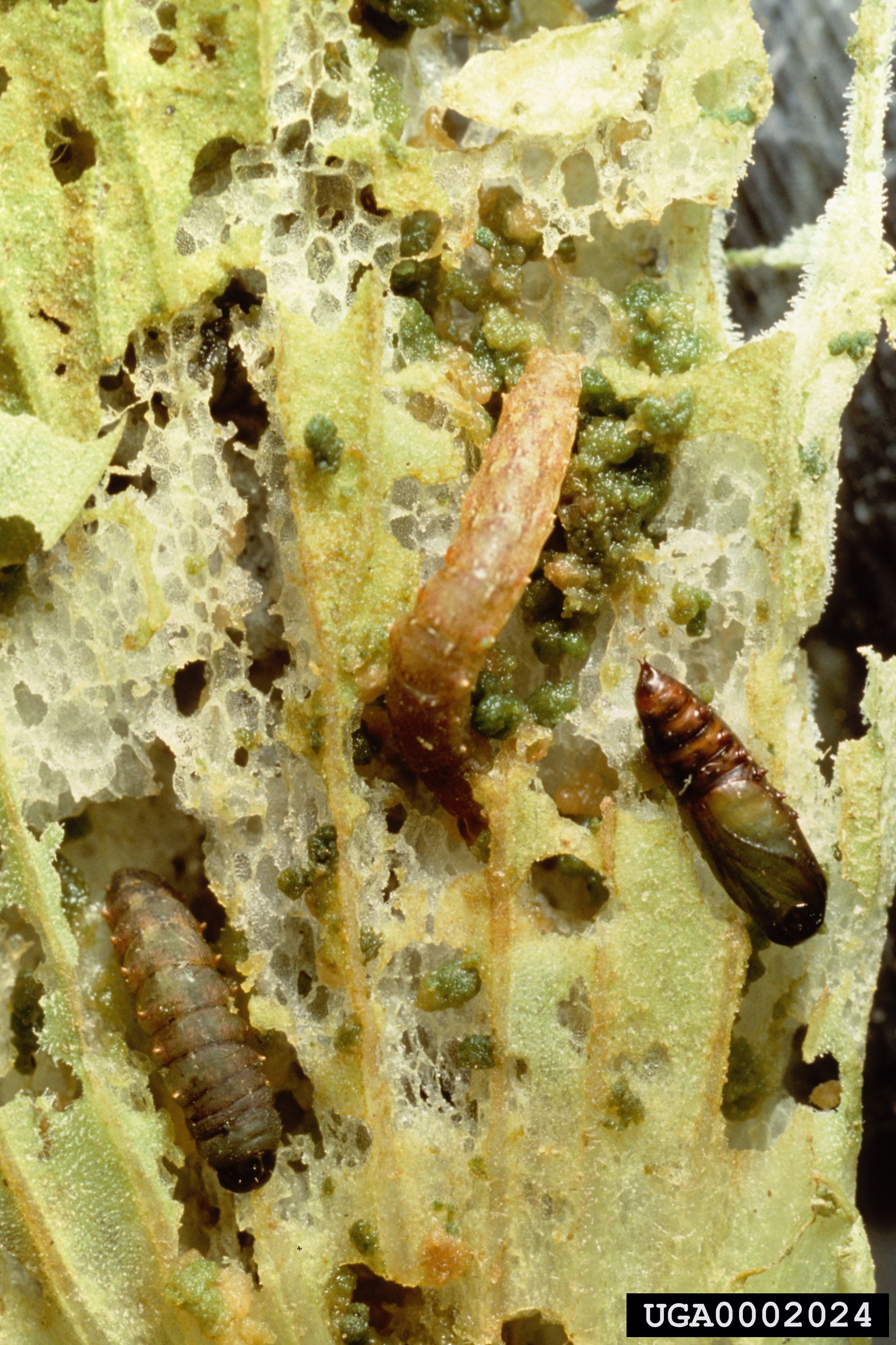 Spodoptera pectinicornis_larva